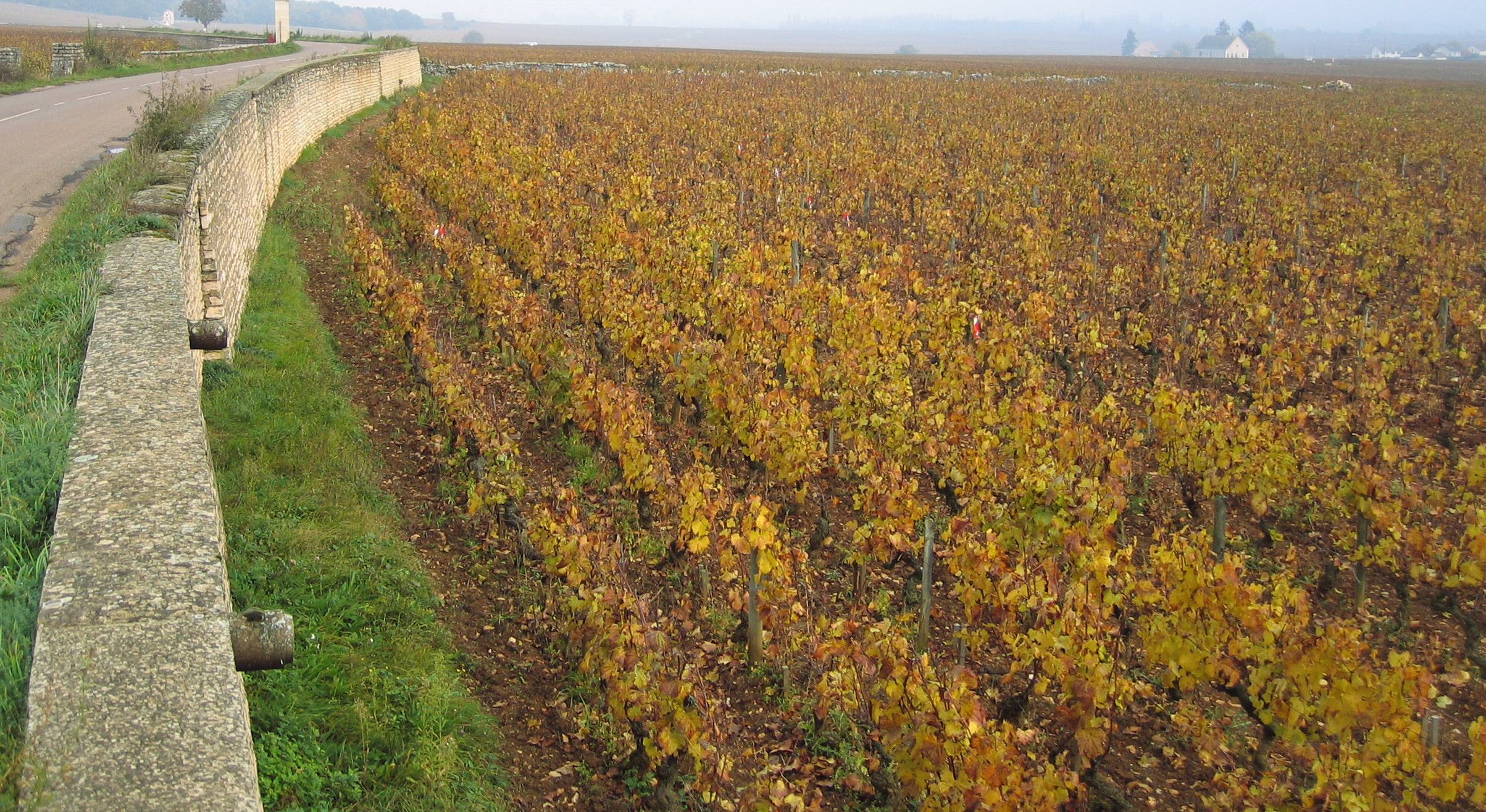 Bâtard-Montrachet, a grand cru vineyard in Burgundy, in autumn. In the distance the village of Puligny-Montrachet.